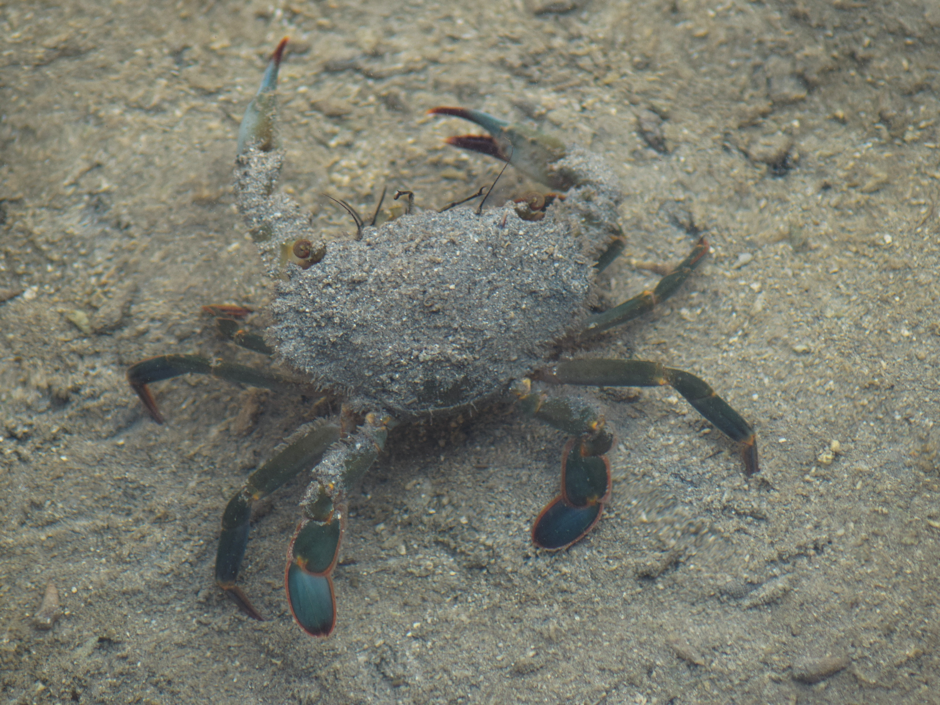 Powder blue-clawed swimming crab (Thalamita crenata); half-swimming in it's habitat, sandy mudflat during low tide. From Karimunjawa Nat. Park, Central Java, Indonesia.